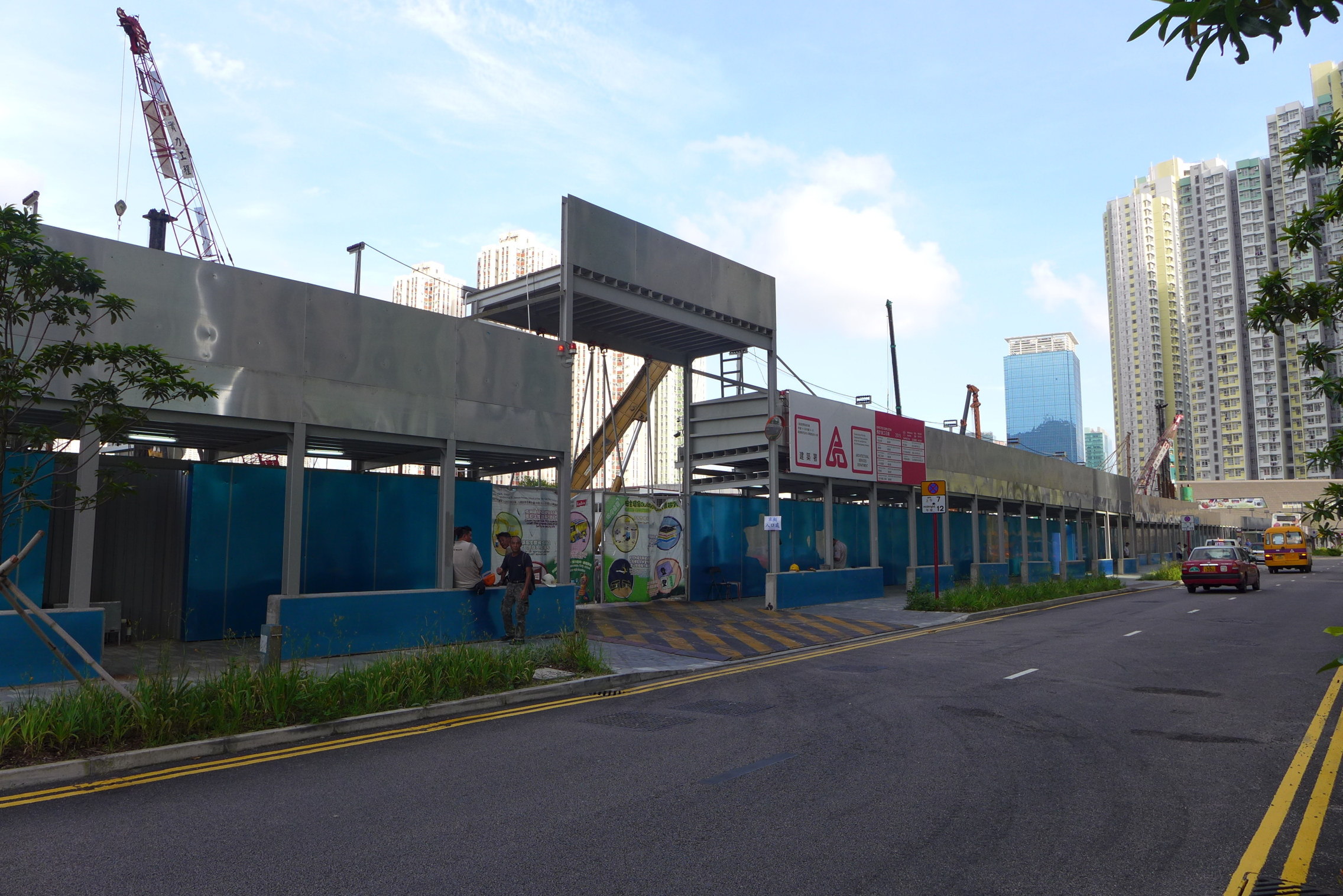 Kai Ching Estate School Construction Site